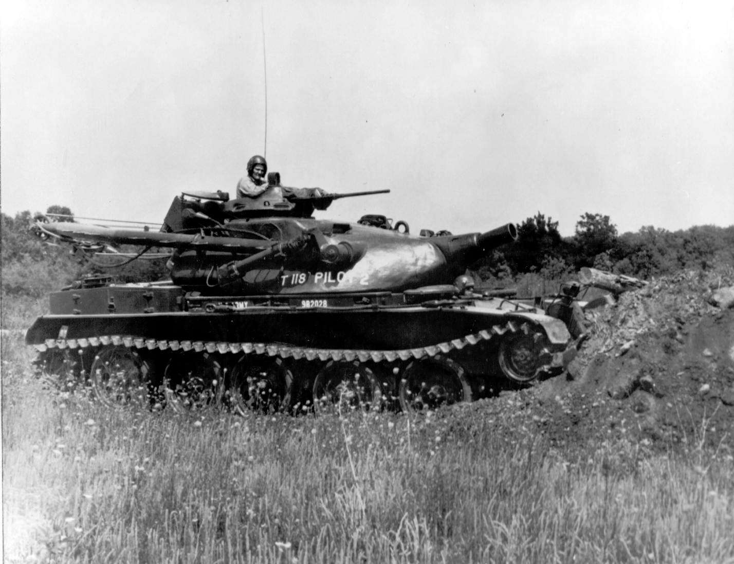 T118 prototype CEV at Aberdeen Proving Grounds 1962